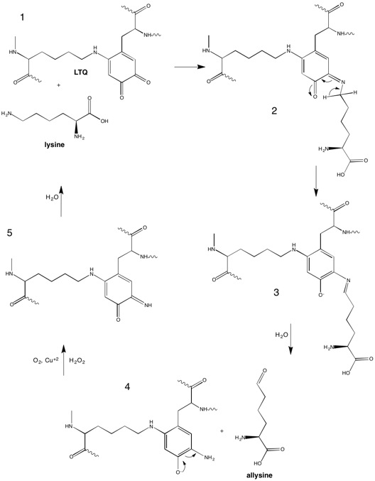 Mechanism of oxidation of lysine to allysine catalyzed by lysyl oxidase, using the lysyl tyrosylquinone cofactor (LTQ). (1) LTQ reacts with lysine to form (2) a Schiff base, which then undergoes a rate-limiting deprotonation to yield the (3) aldimine. Hydrolysis yields the (4) aldehyde product allysine; molecular oxygen, copper and water regenerate LTQ.